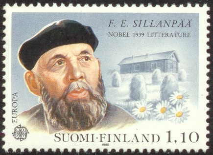 Postage stamp depicting Finnish writer F. E. Sillanpää